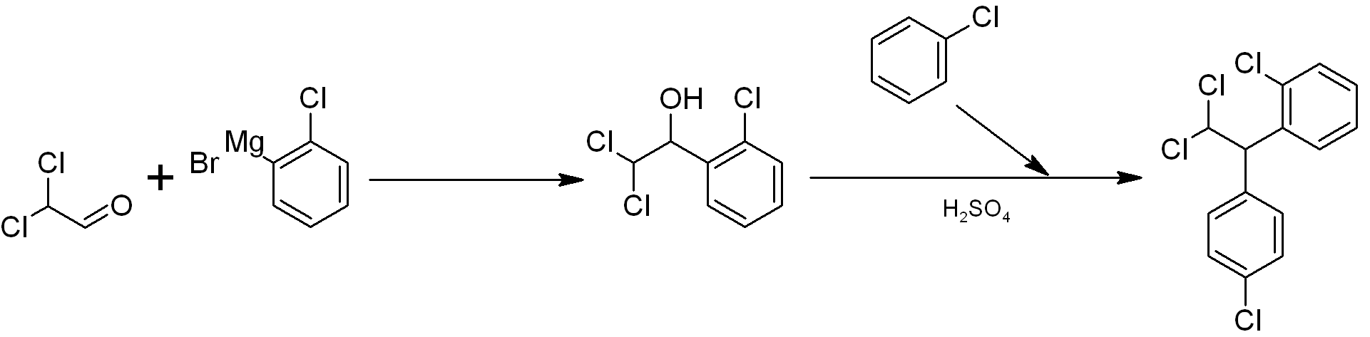 Synthesis of mitotane